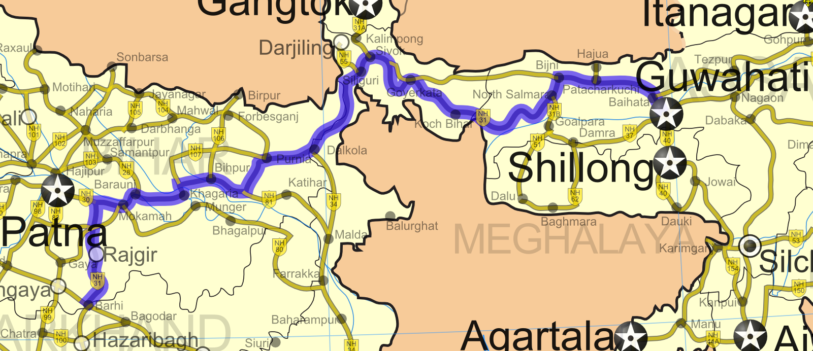 National Highway 31 in India